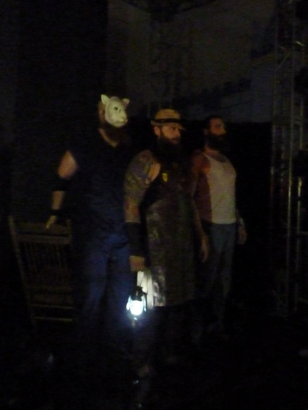 The Wyatt Family (from left to right: Erick Rowan, Bray Wyatt, and Luke Harper) at a WWE show in Minehead on November 16, 2013.